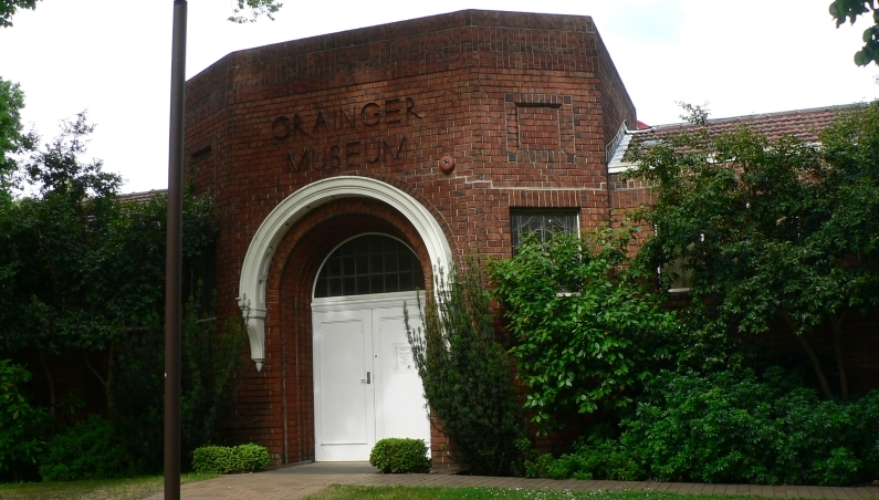 Grainger Museum. University of Melbourne.